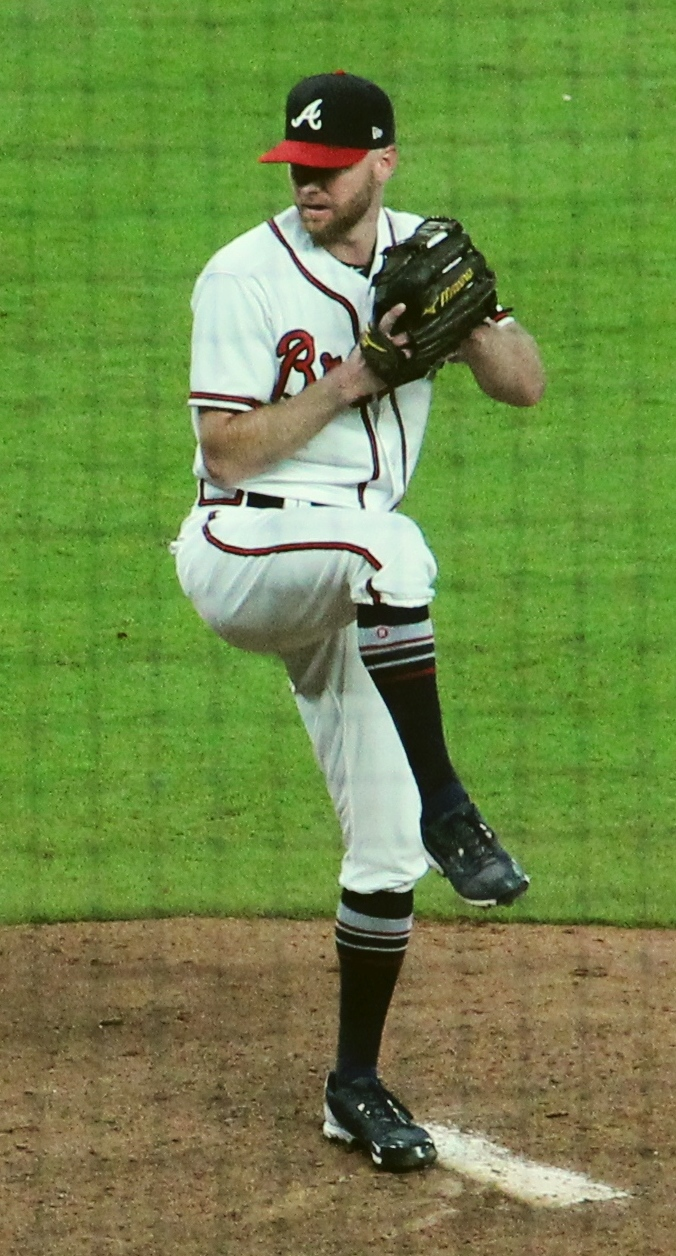 Atlanta Braves vs. St. Louis Cardinals, September 18, 2018